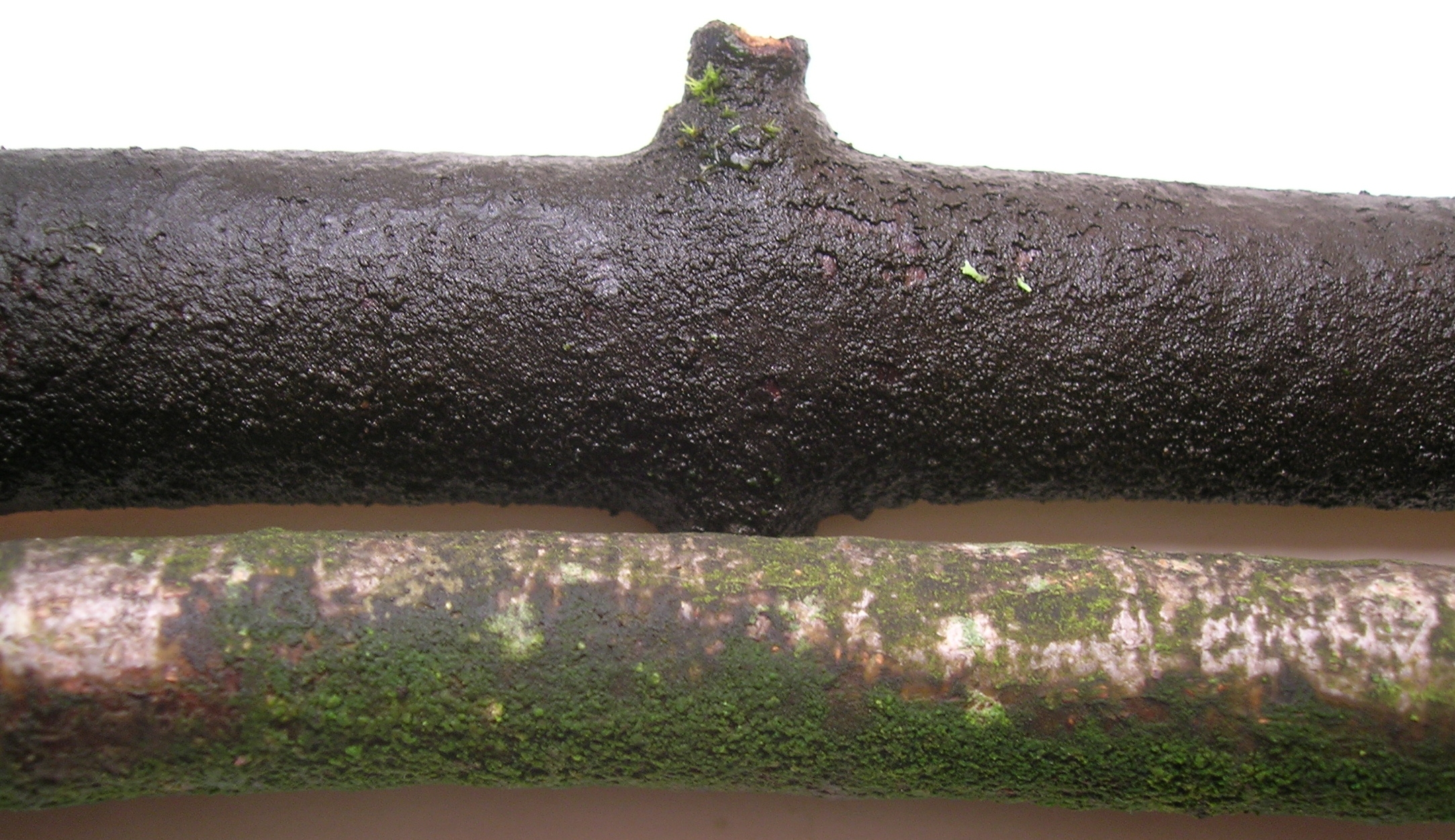 Baudoinia compniacensis, the Angel's Share or Wharehouse Staining fungus from Willowyard, Beith, North Ayrshire, Scotland. Growing on Acer pseudoplatanus with a normal twig for comparison.